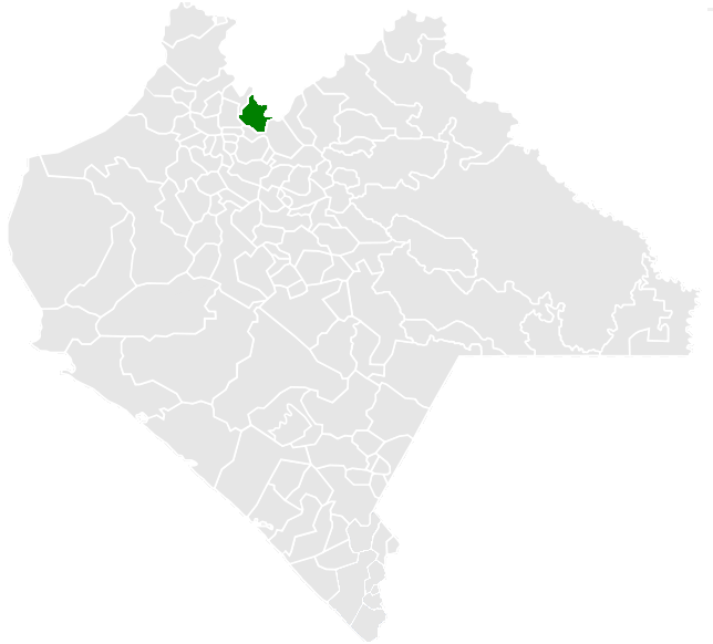 Map of the Municipalty of Amatán in the State of Chiapas, México.